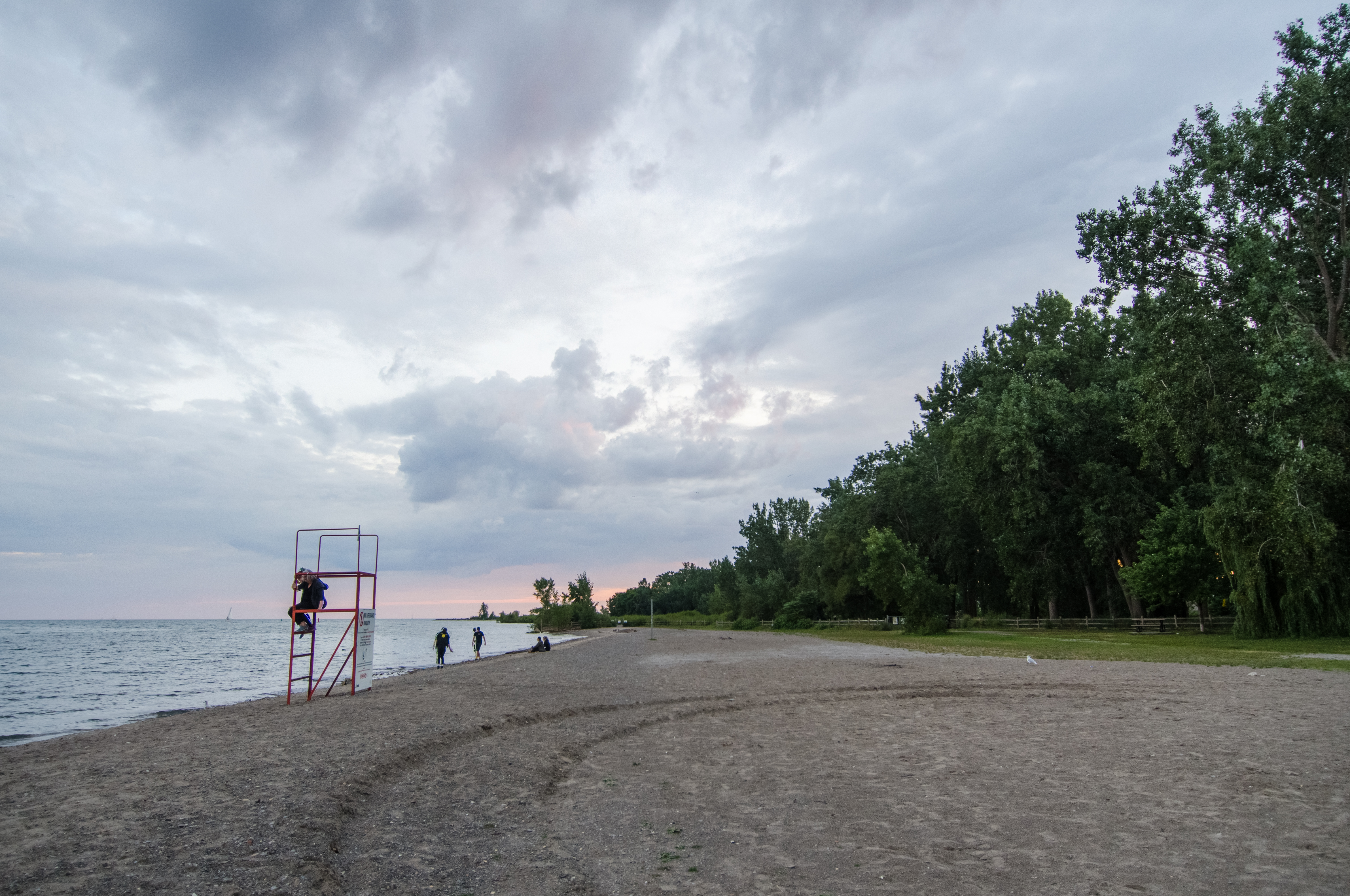 Seen in Orphan Black, Wonderfalls, That's My DJ, and more.